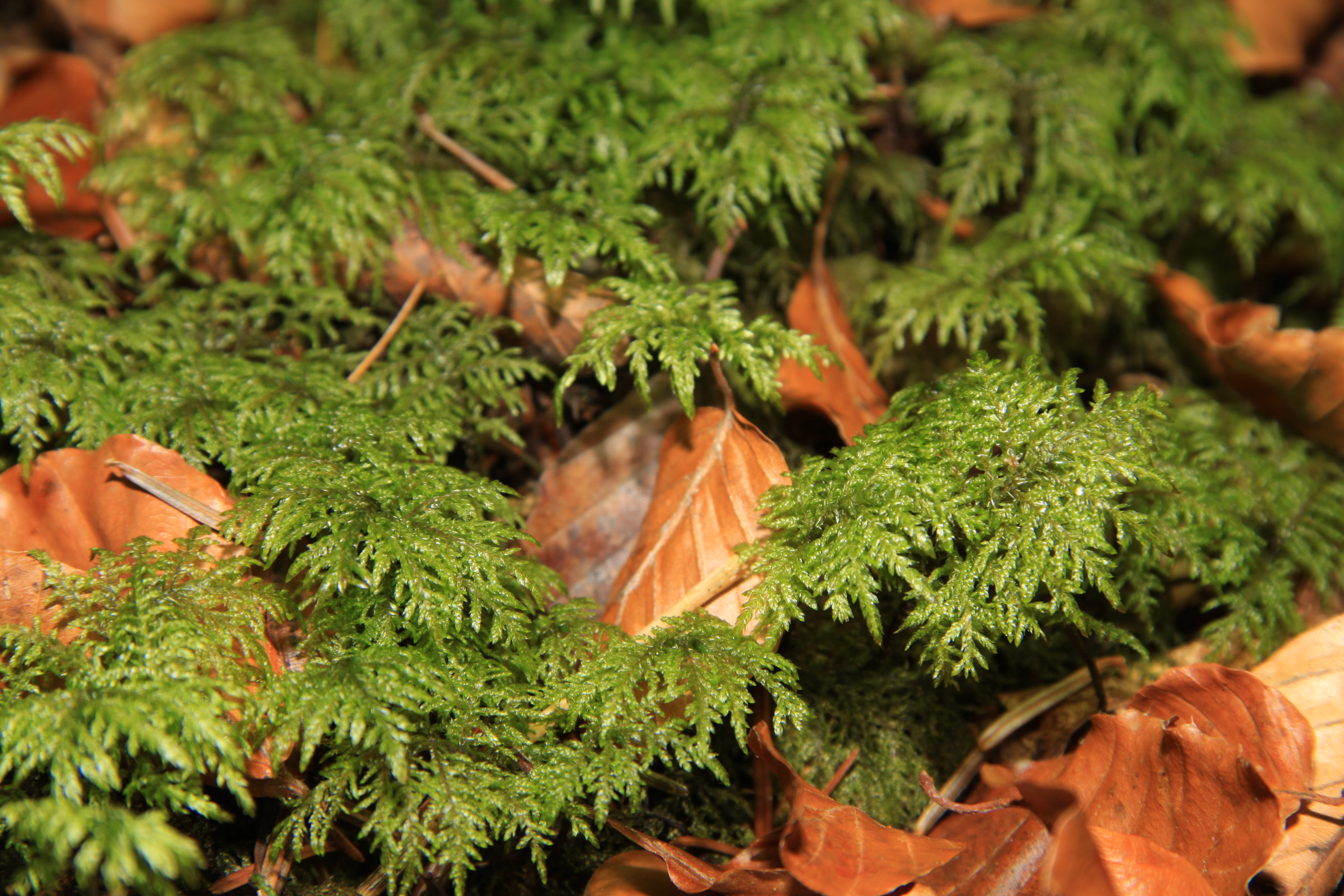 Hylocomium splendens in nature reserve Ptačí stěna near Brloh village in Český Krumlov, Czech Republic Project: Chráněná území.